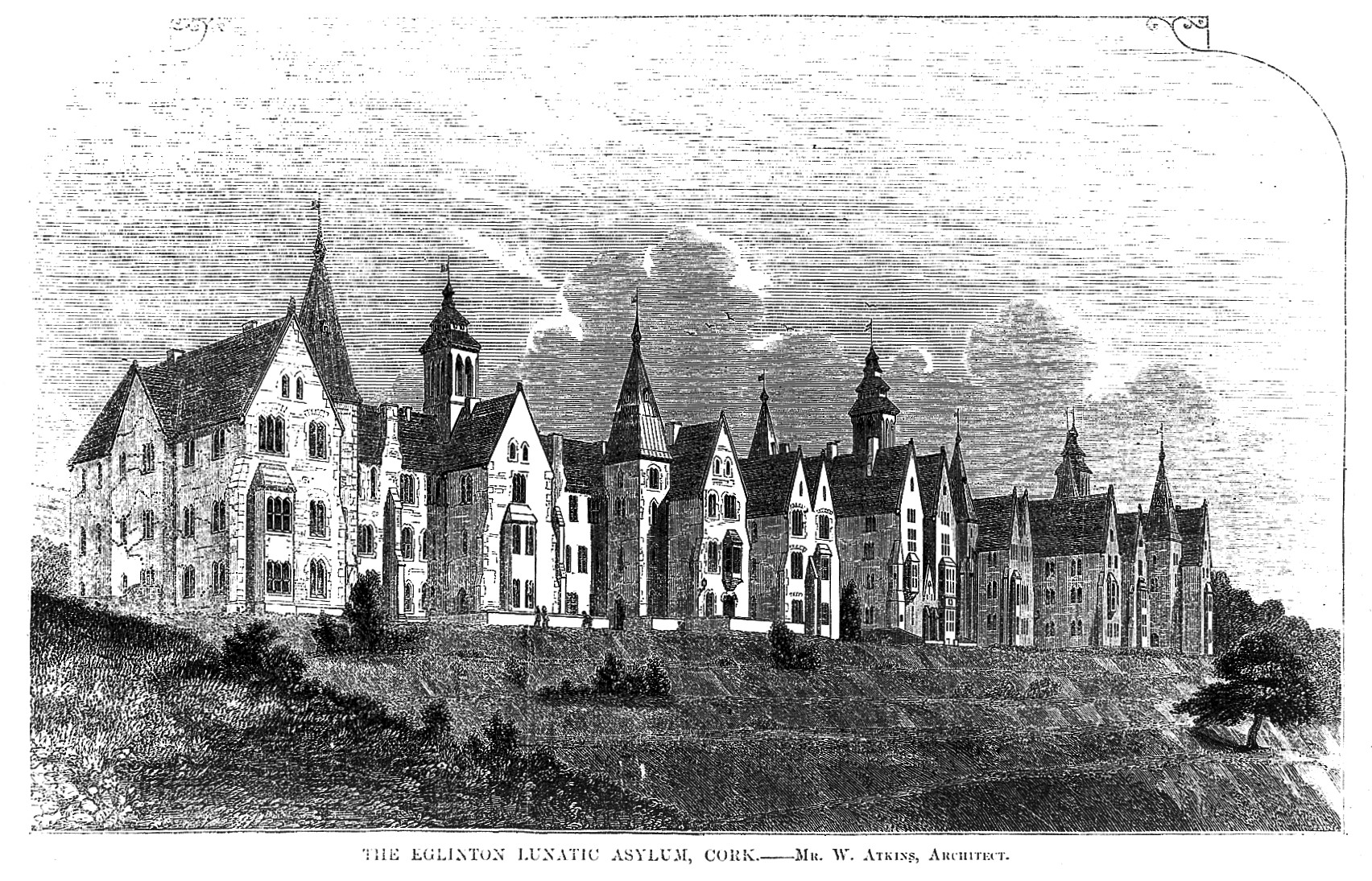 Eglinton Lunatic Asylum, Cork, Ireland. Wood engraving by C. D. Laing, 1852, after W. Atkins. Wellcome Images Keywords: William Atkins; Charles D. Laing